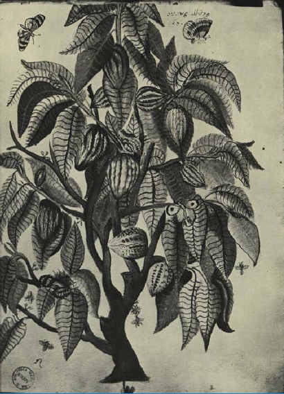 "Cacao bianco" from Pietro Antonio Michiel, I cinque libri di piante. Monochrome reproduction from plate 3 of the 1940 edition